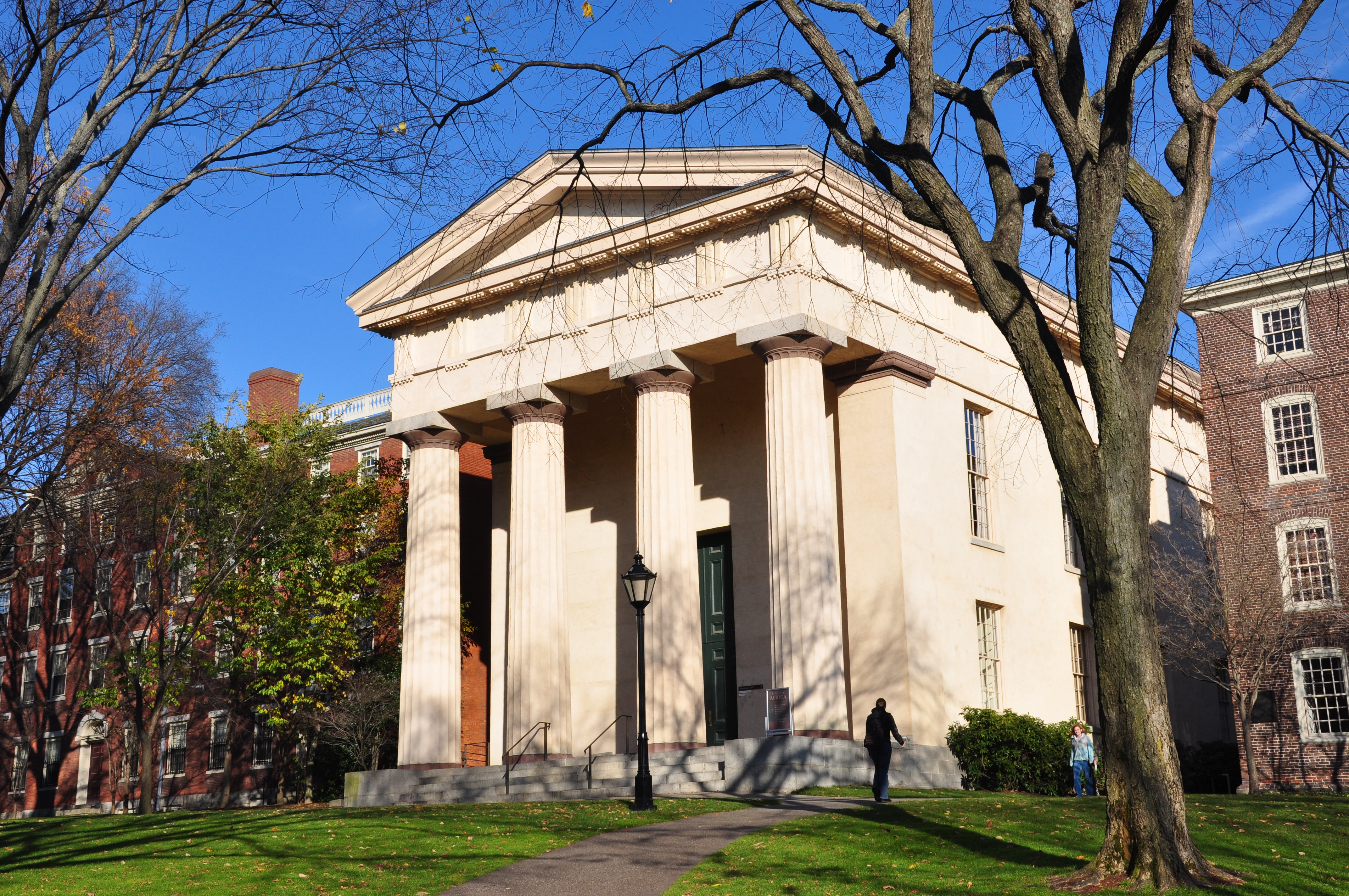 Manning Hall, Brown University, Providence, Rhode Island, USA.